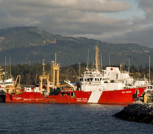 CCGS W. E. Ricker at Institute of Ocean Sciences, Patricia bay, Sidney BC. IMO Number: 7809364 MMSI Number: 316116000 Callsign: CG2965 Length: 58 m Beam: 10 m